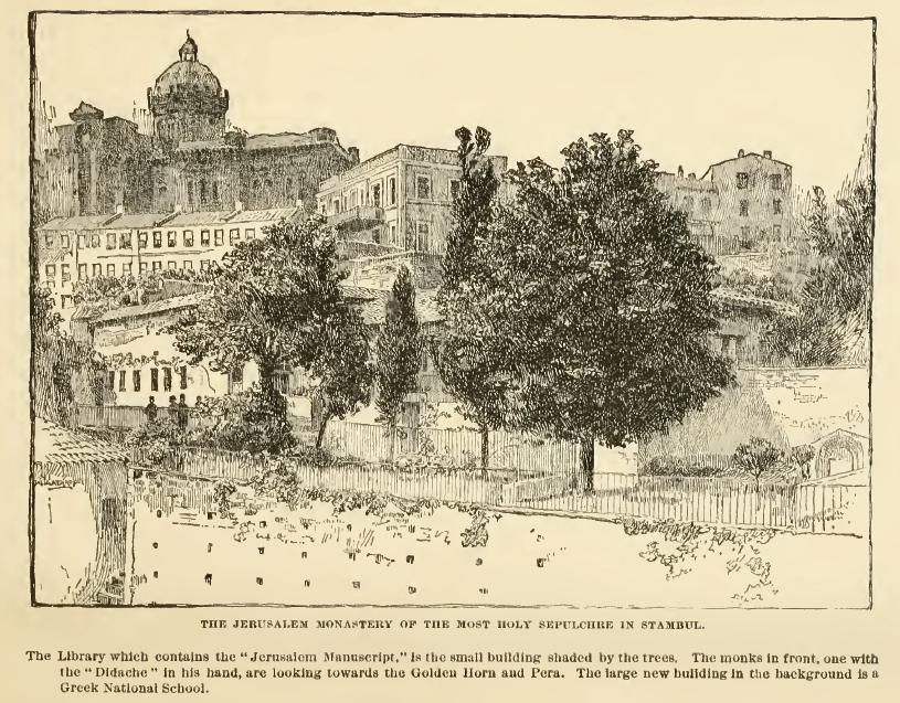 Greek National School